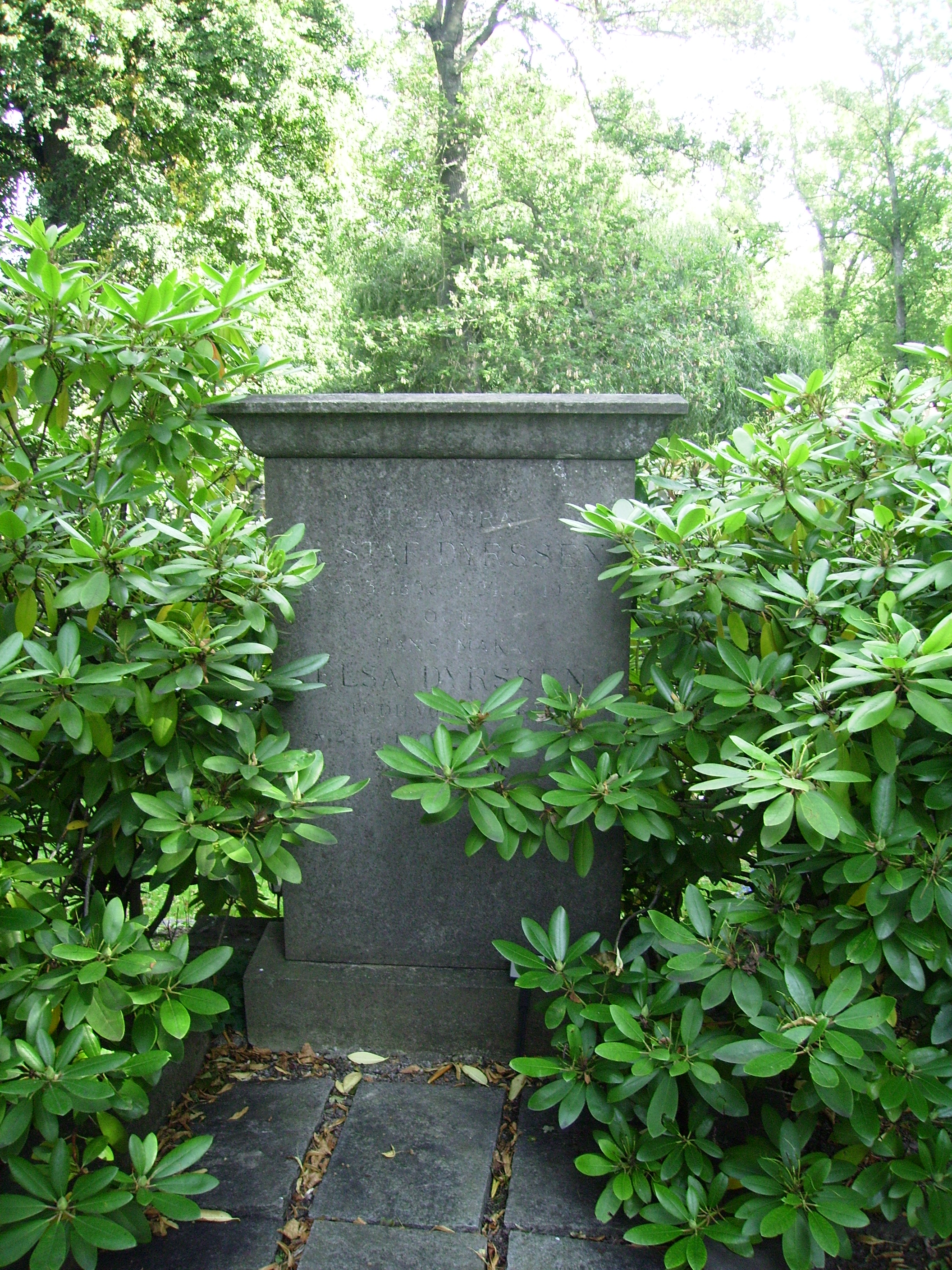 Picture of Gustaf Dyrssen's grave at Galärvarvskyrkogården in Stockholm